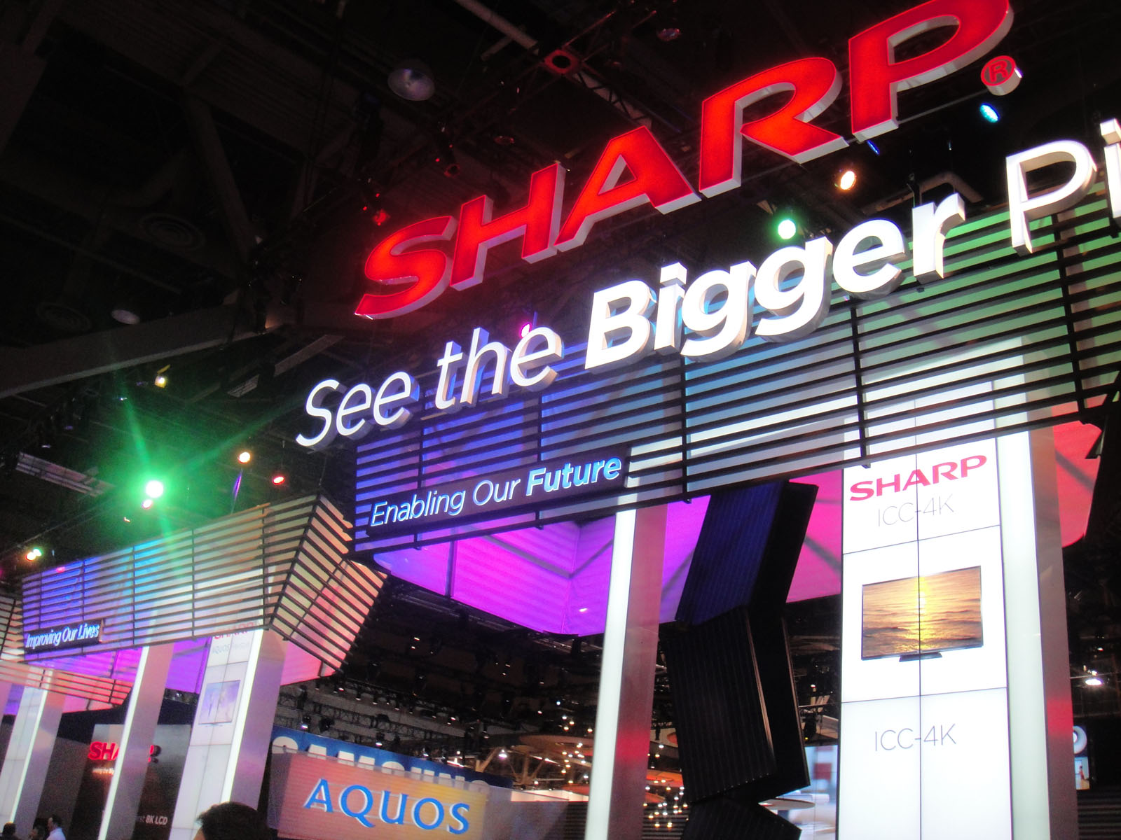 photo 2012 Pop Culture Geek taken by Doug Kline If you're interested in higher resolution versions of my images, contact me via my profile page.